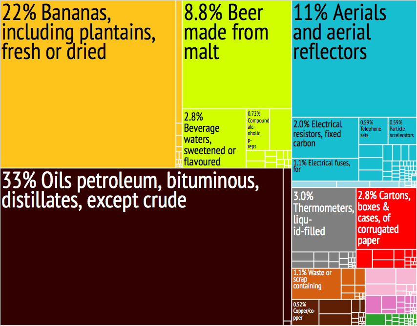 St. Lucia Export Treemap from MIT Harvard Economic Complexity Observatory